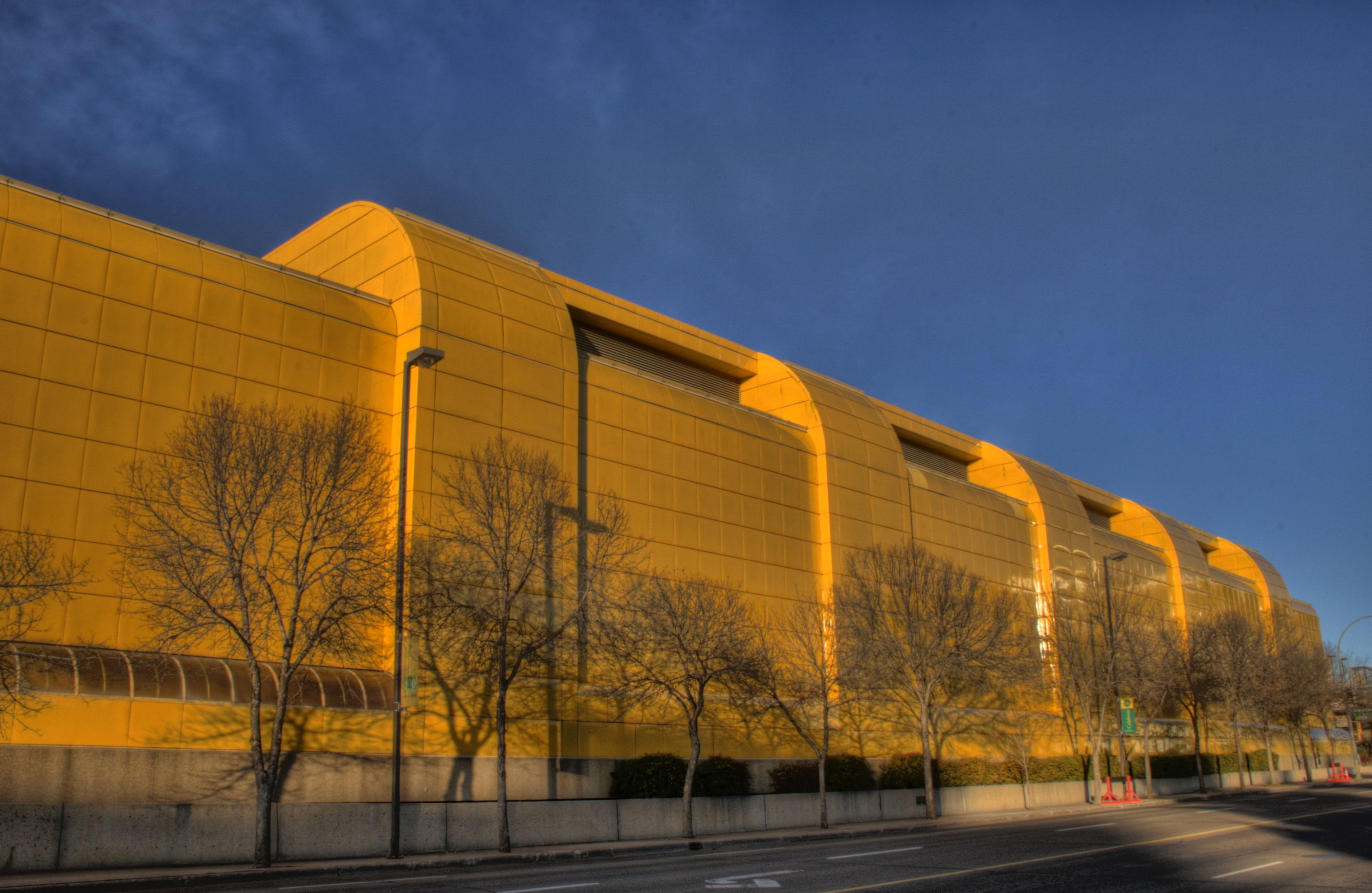 The University of Alberta Universiade Pavilion, generally known as the Butterdome, in Edmonton, Alberta, Canada.